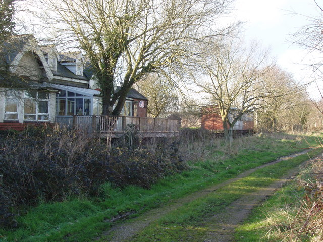 Derelict railway station